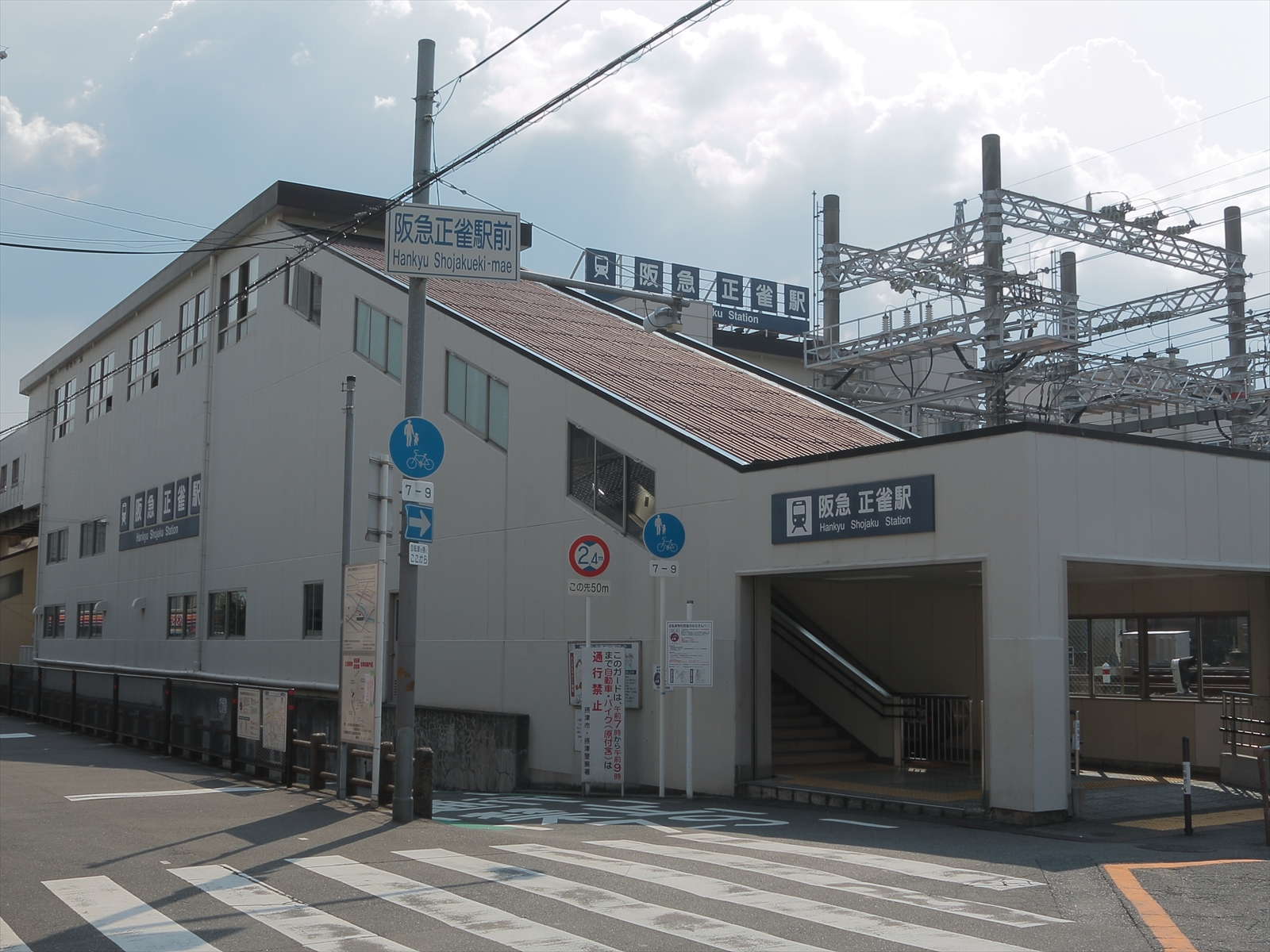 East Entrance from Shōjaku Station.